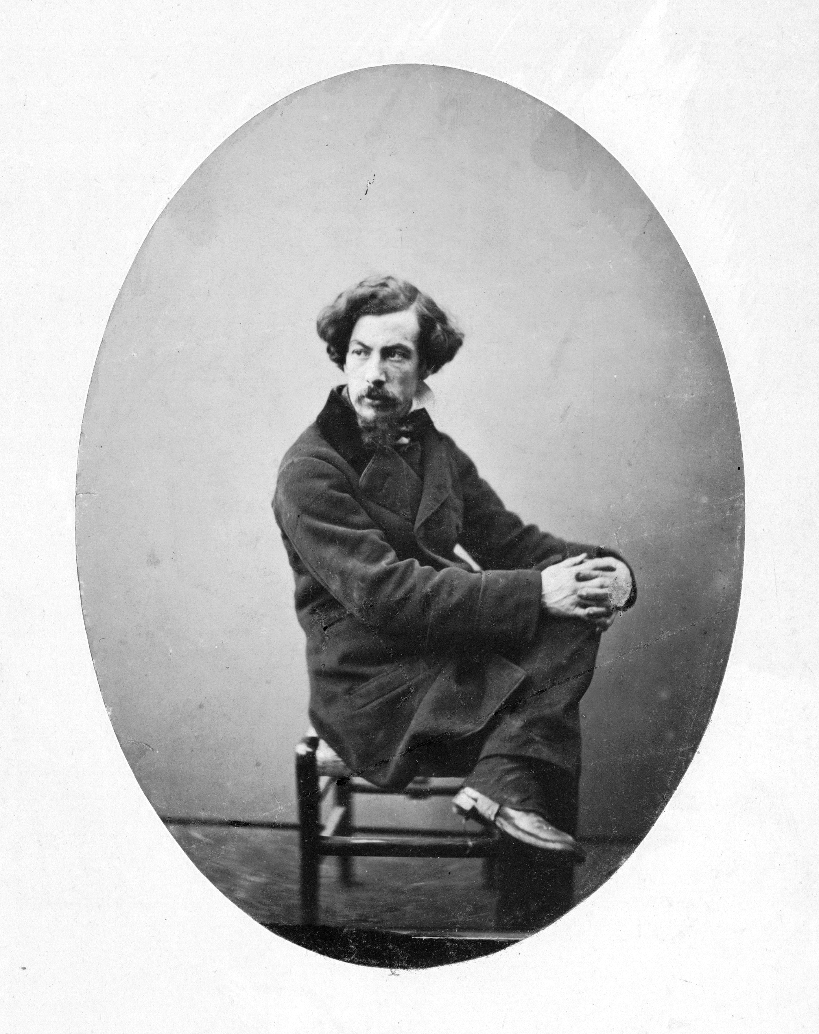 Gustave Le Gray autoportrait, ca. 1850-1852.